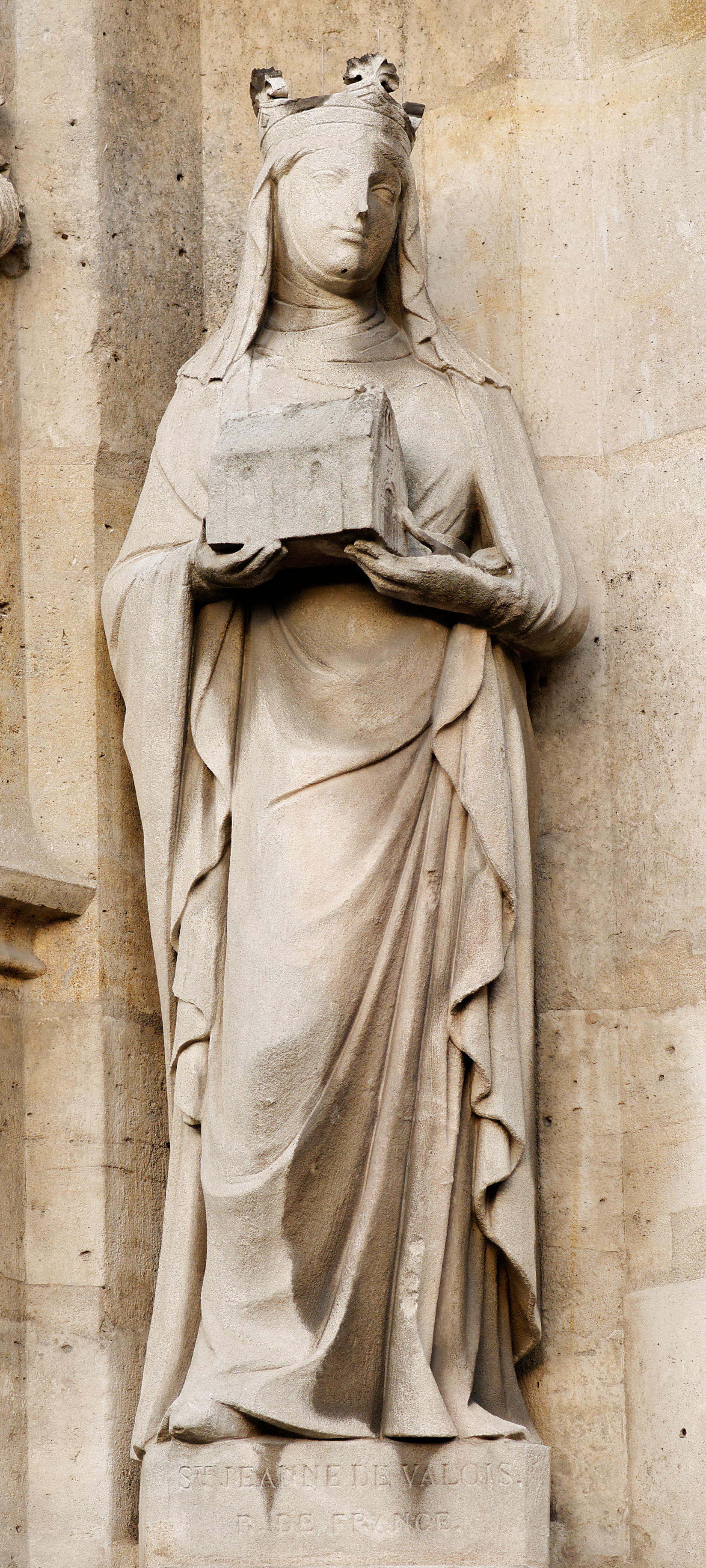 St. Joan of Valois, copy after the gothic original. Porch of Saint-Germain l'Auxerrois, Paris.